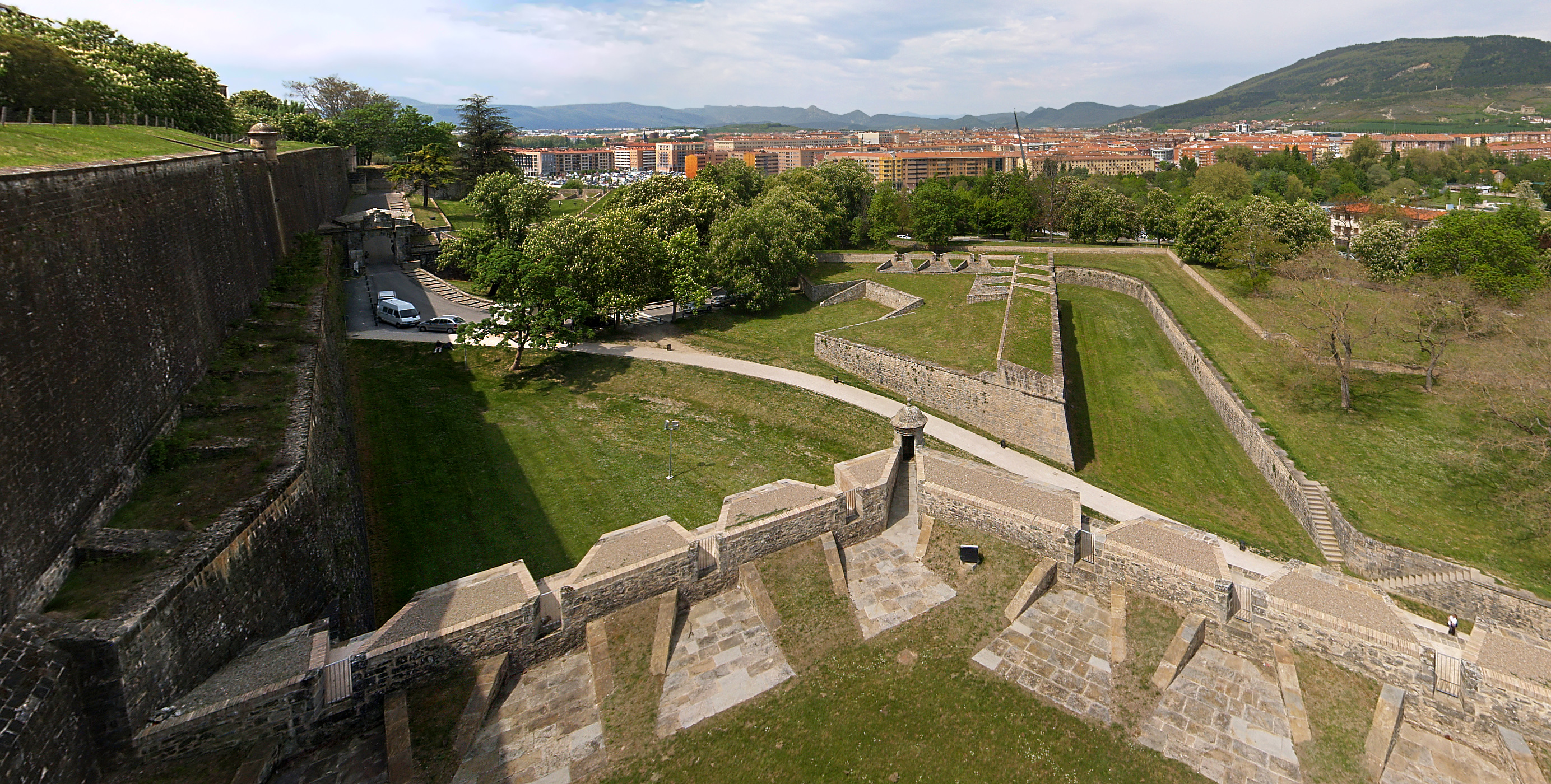 Baluarte del Redín, Pamplona. Stitch of 3 horizontal images.